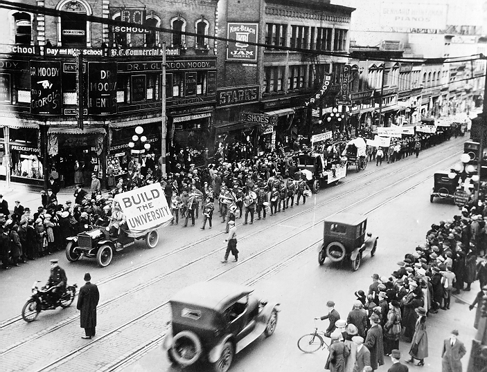 UBC students march during the Great Trek at Granville and Georgia streets